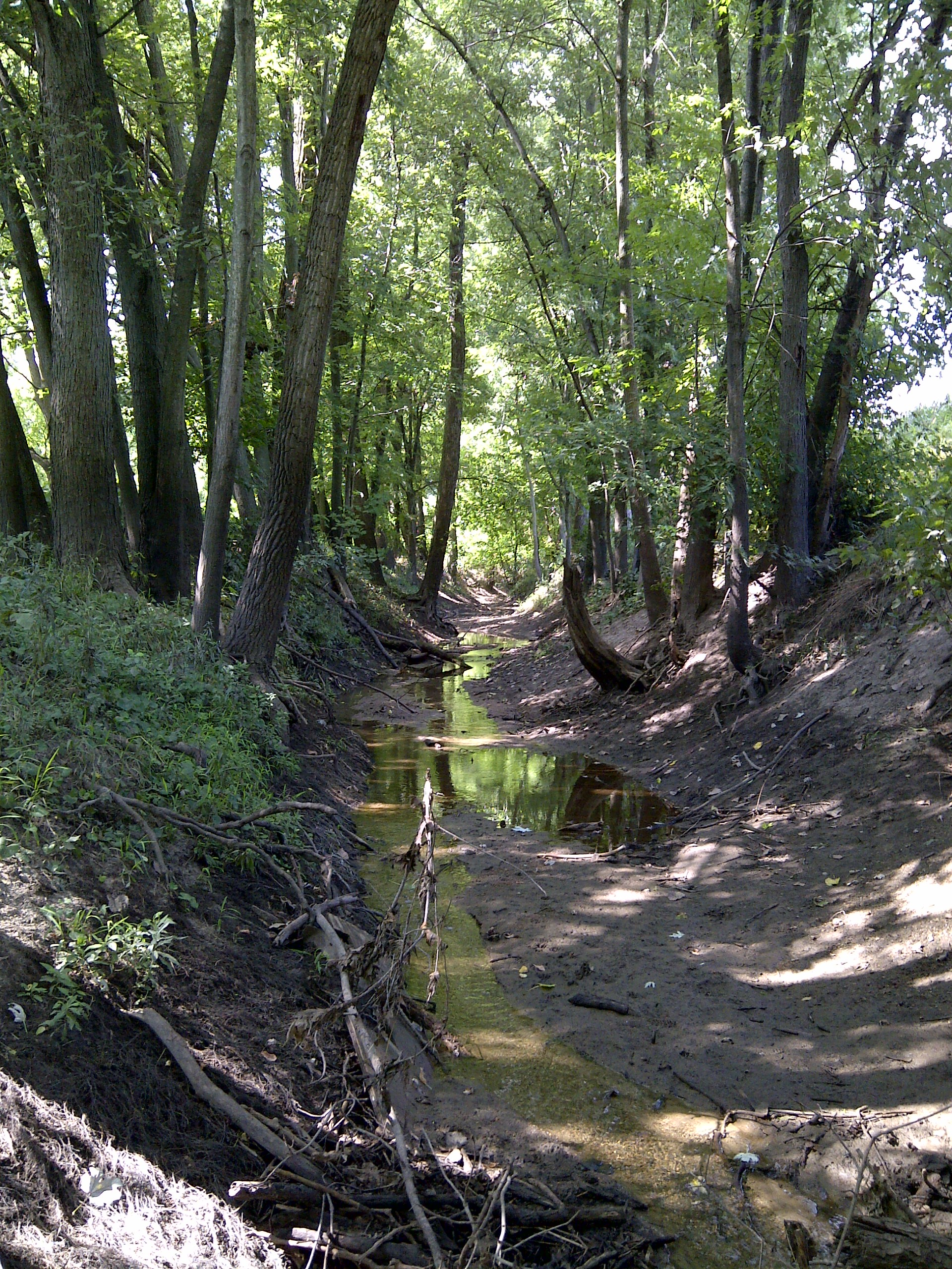 Stevens Creek Tributary A in Macon County, IL